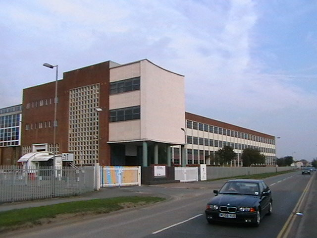 BMW Plant 35 Swindon Built in 1955 as part of Pressed Steel Company as an extension of their Oxford Plant. Austin Cambridge, 1100, 1300, Triumph 2000, MG Range all Rover models and parts for Land Rover built here. Now part of BMW empire and makes panels and sub-assemblies for Mini.